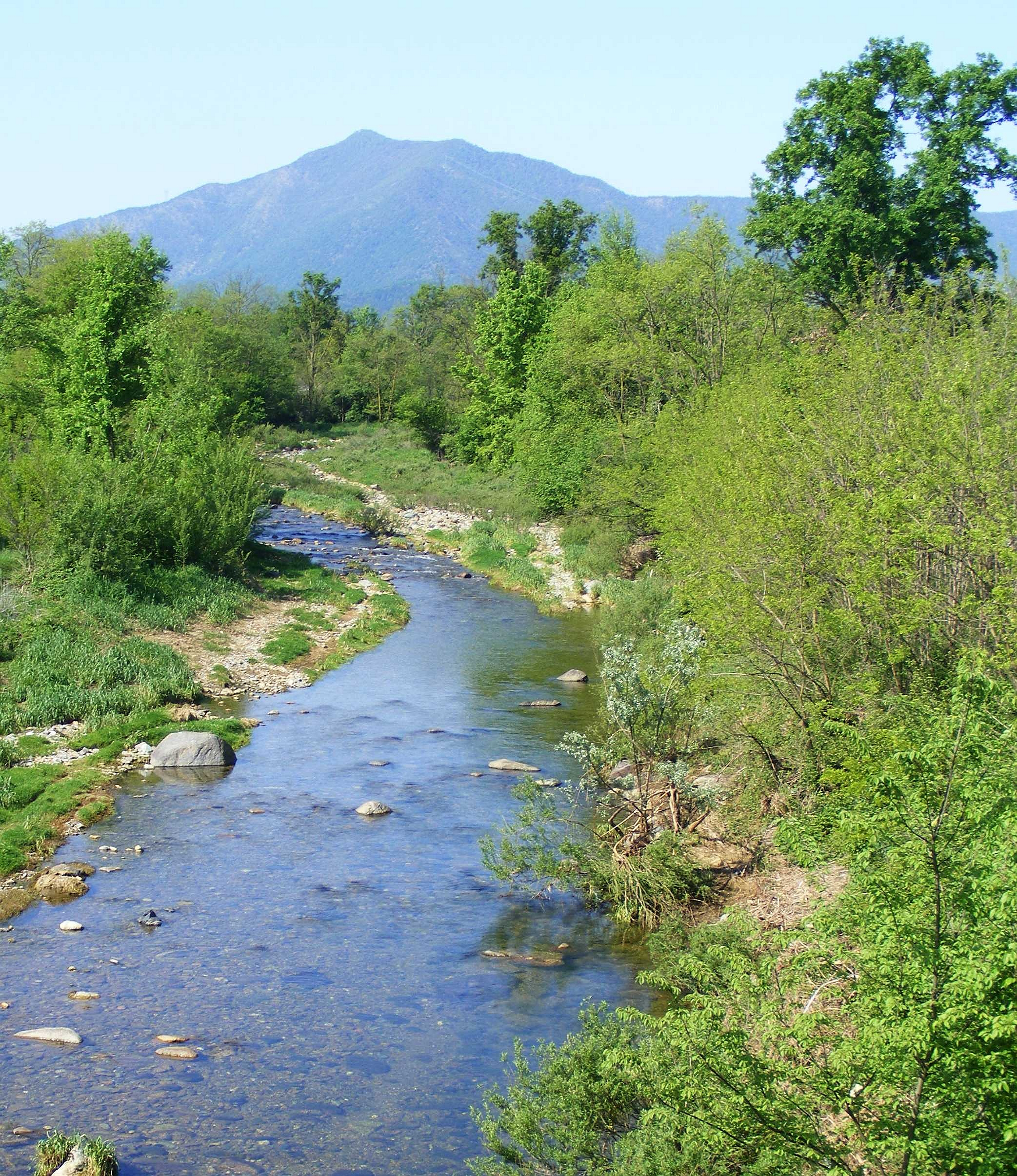 Caternone creek near San Gillio (TO, Italy); on the background Mount Musinè